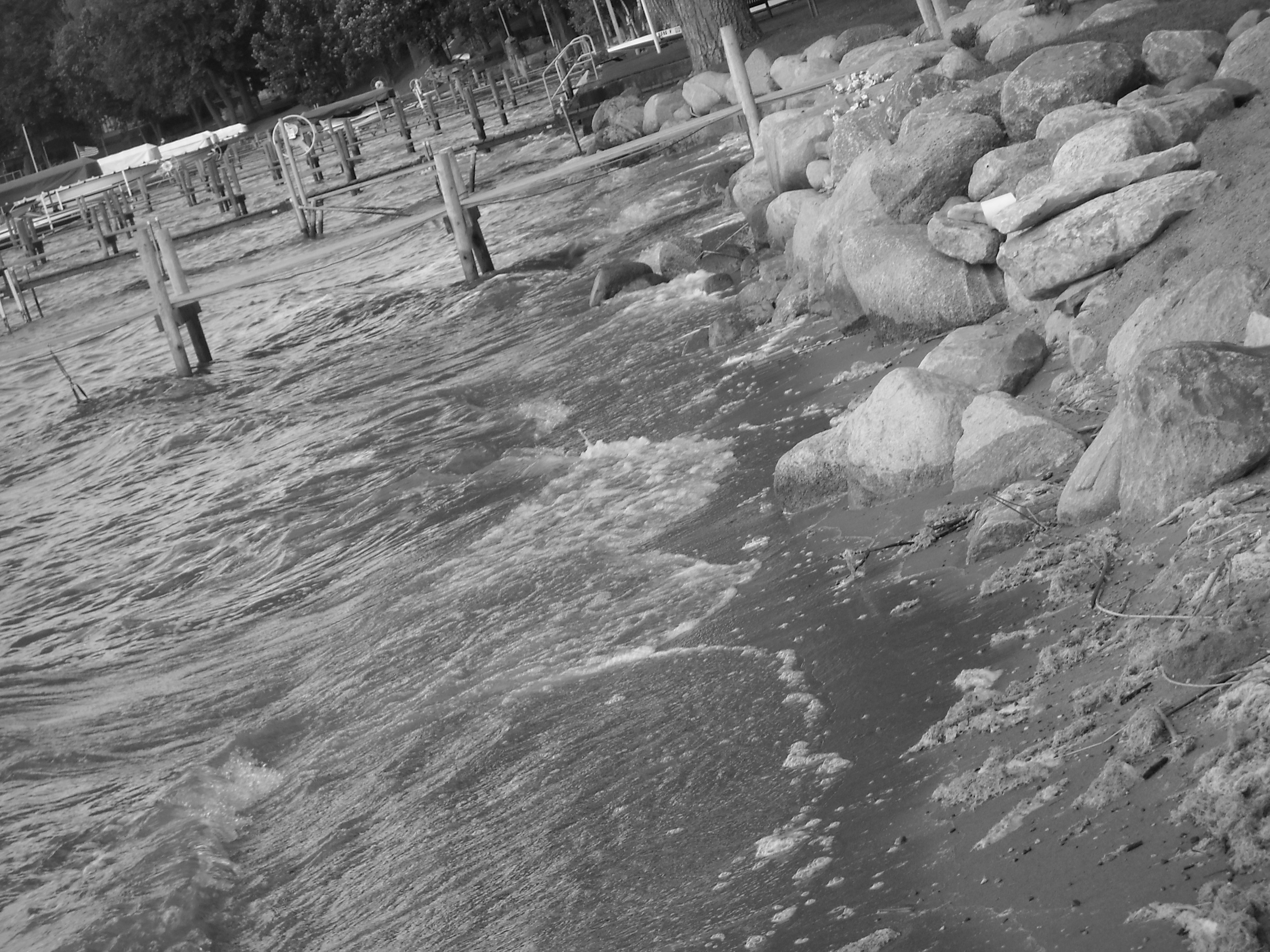 Taken on a beach on Buzzards Bay on Clear Lake, Iowa.